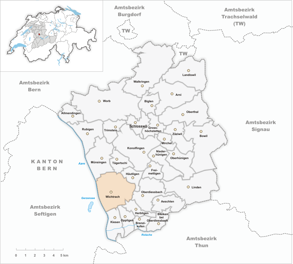 Municipality Wichtrach